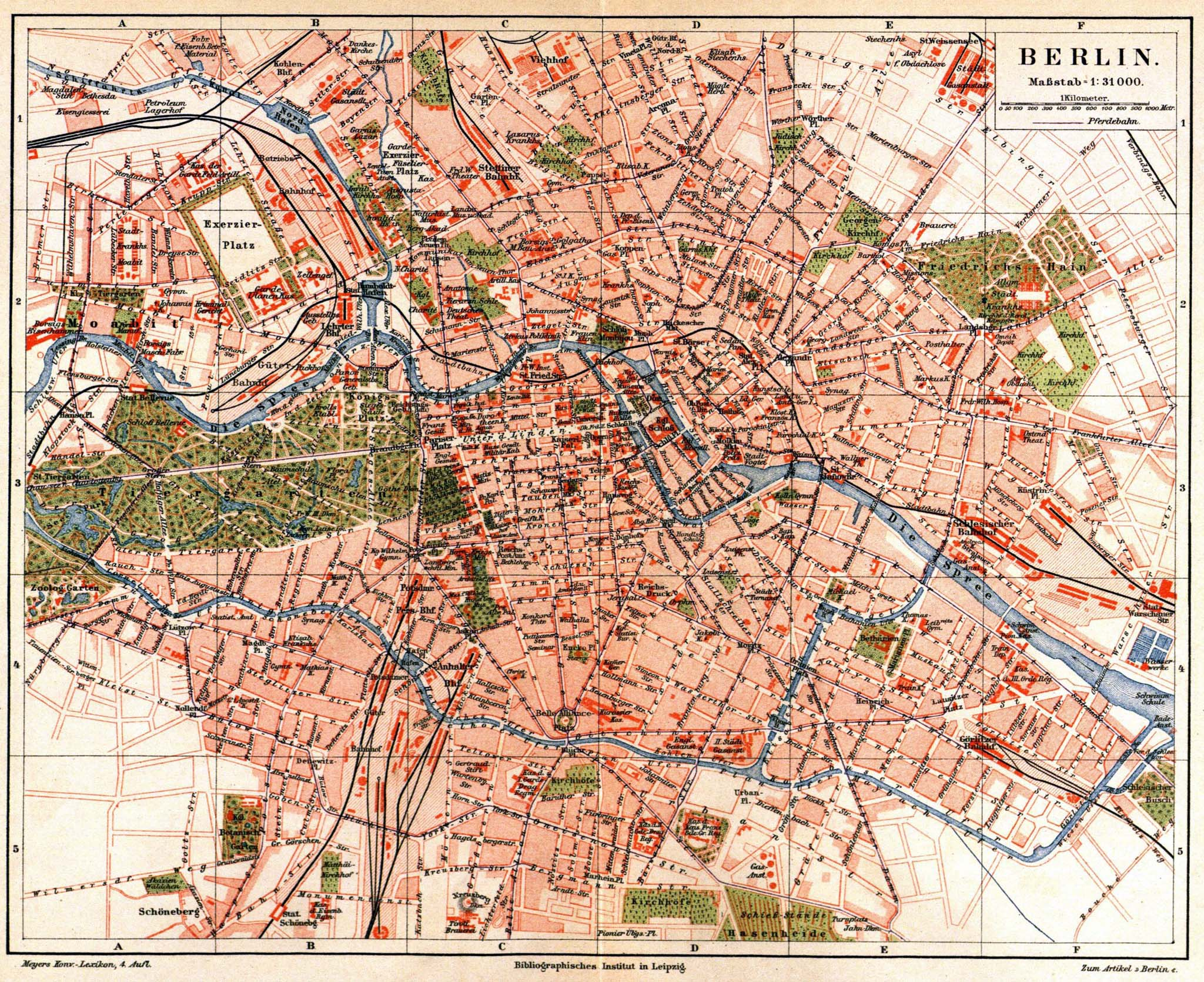 Meyers Konversationslexikon — Vol. 2 — city map to page 752 — Berlin (Germany) Scale 1:31000 Horse-drawn Tram (thin black lines; railway - thick black lines)